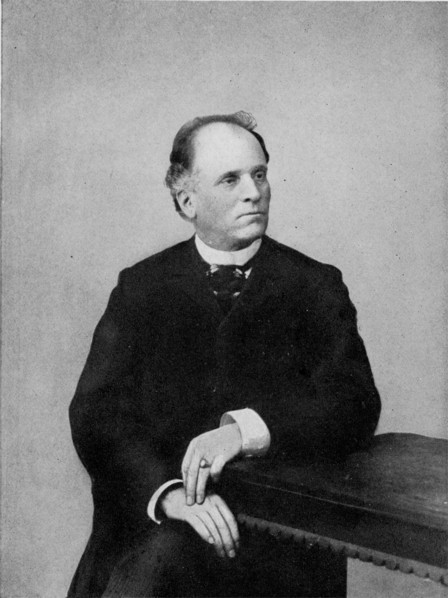 Portrait of Adolf Bandelier (1840-1914), sitting.